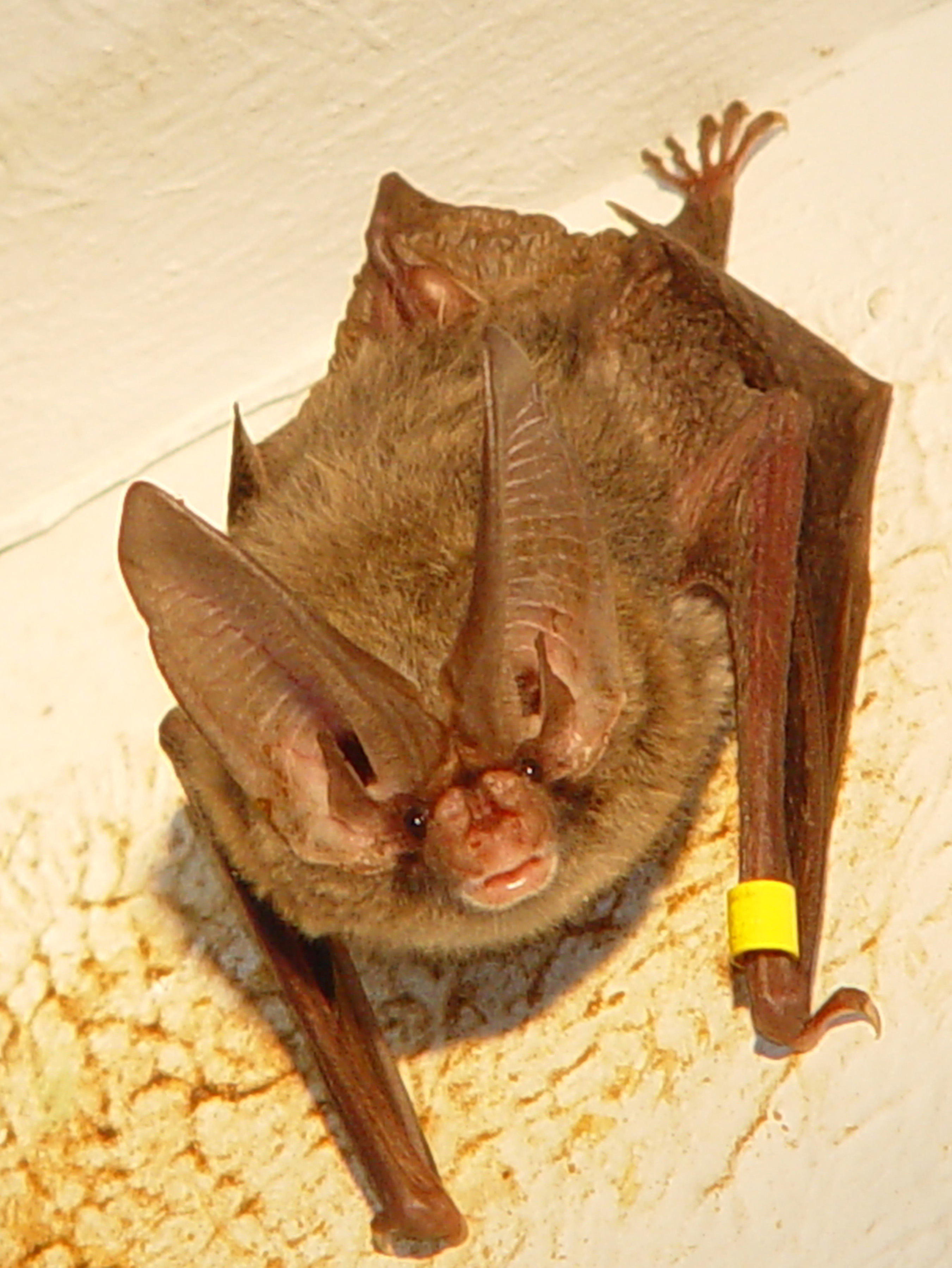 Today's #mypubliclandsroadtrip continues with a behind-the-scenes with Alison McCartney, a BLM Southeastern States District Office employee stationed in Jackson whose specialty is bats. "The BLM's Southeastern States employees are currently conducting acoustic surveys on BLM tracts in Arkansas and Louisiana to determine bat species relative abundance and diversity. We are using an Anabat SD2, which is a piece of equipment that records bat echolocation calls. Using specialized software these calls can be analyzed to identify species. Our primary focus for the survey effort is to determine if there are any rare, threatened, or endangered bat species utilizing the tracts to better focus habitat management efforts to benefit these species, if present. We are also interested however, in common species that might occur on the tracts. Bat relative abundance and diversity are considered an overall indicator of forest health. A higher abundance and species diversity of bats in an area represents a healthier more diverse forest. All bats found in the Southeast are insectivores and therefore provide the ecological benefit of being a natural pest control. Little brown bats and gray bats, for example, have been found to consume over 3,000 mosquitoes in one night by one individual. In addition to bats being a natural source for controlling mosquito populations, bats also help to control agricultural pests. Big brown bats, for example, are predators of several agricultural pests such as June bugs, moths, and beetles. Dramatic declines have occurred for many bat species in the last nine years due to a decease called White-nose Syndrome (WNS). WNS is caused by a fungus which causes hibernating bats to awaken in the winter and act erratically depleting fat reserves, which ultimately might lead to their death. Researchers are working diligently to learn more about the cause and possible cure for this decease." By Alison McCartney